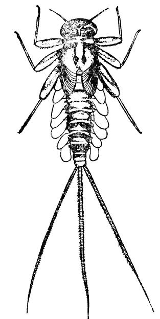 Larva of Rhitrogena sp.